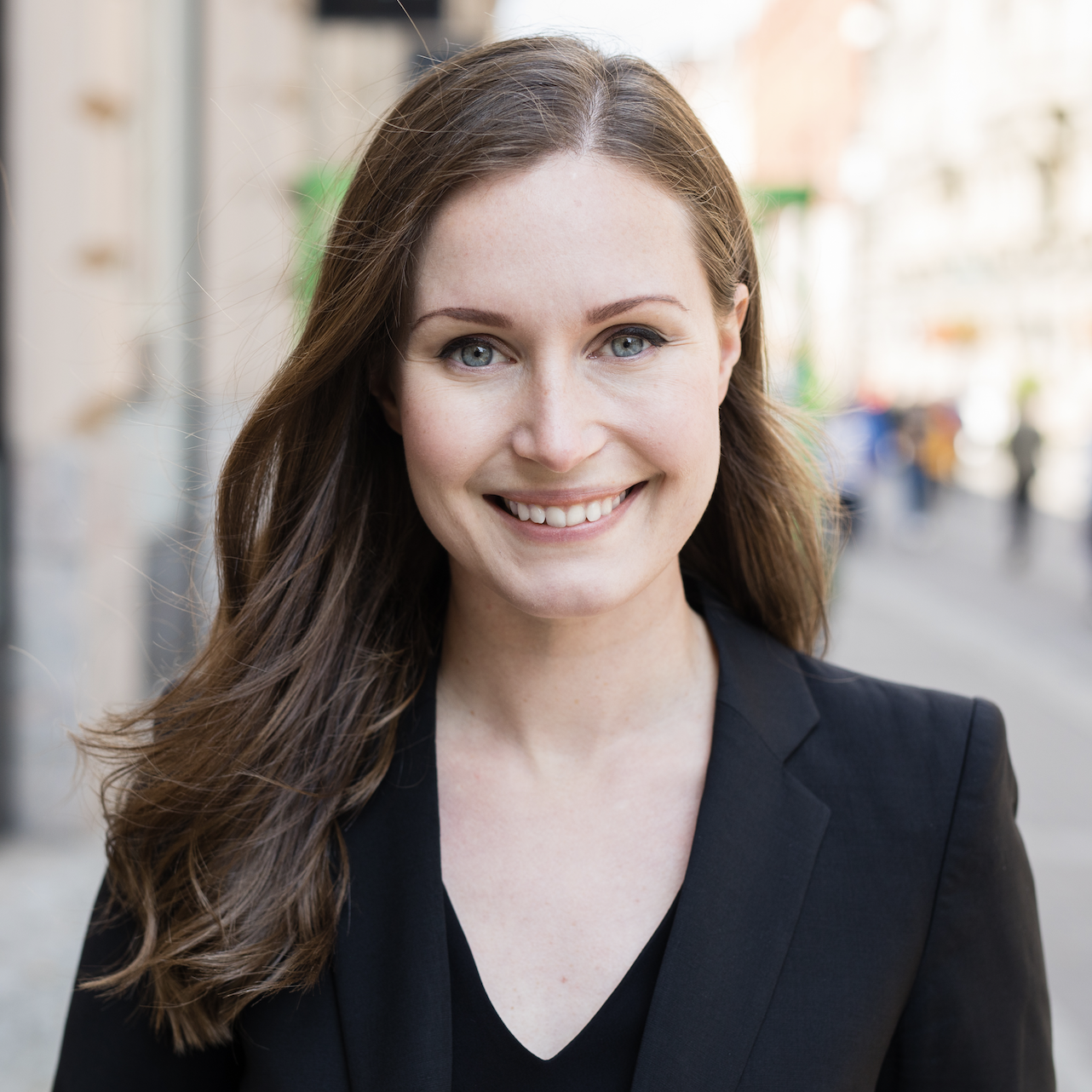 Sanna Marin 2019